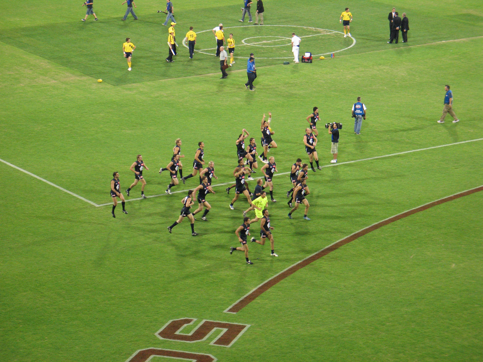 Carlton| players during warmup before the match against Essendon| at the MCG| in Round 2, 2005| on April 1, 2005. Photo taken by User:Celticshk.